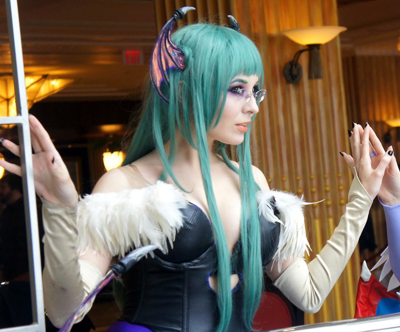 SONY DSC Cropped from the original.